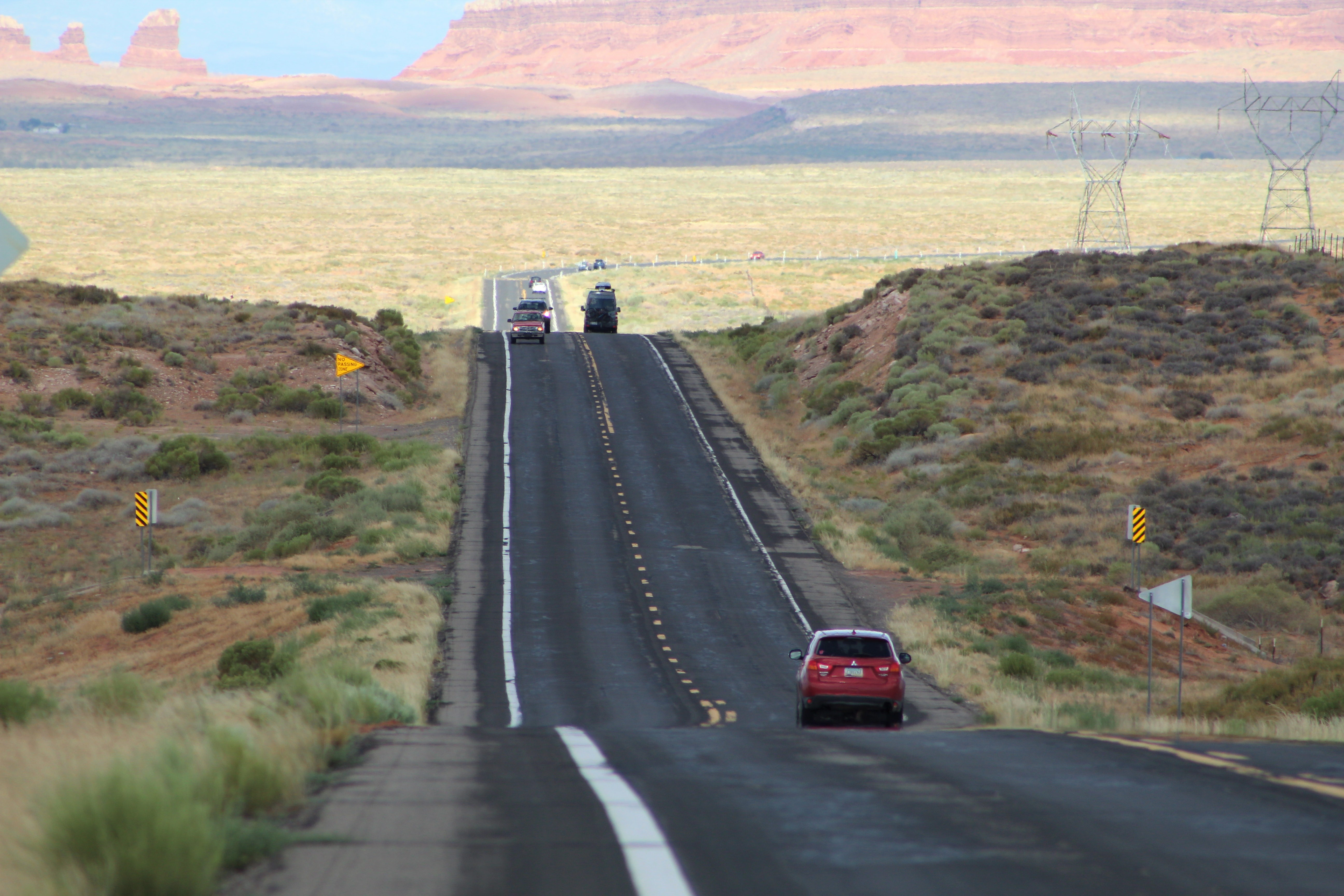 US-160 near Red Mesa, Arizona.